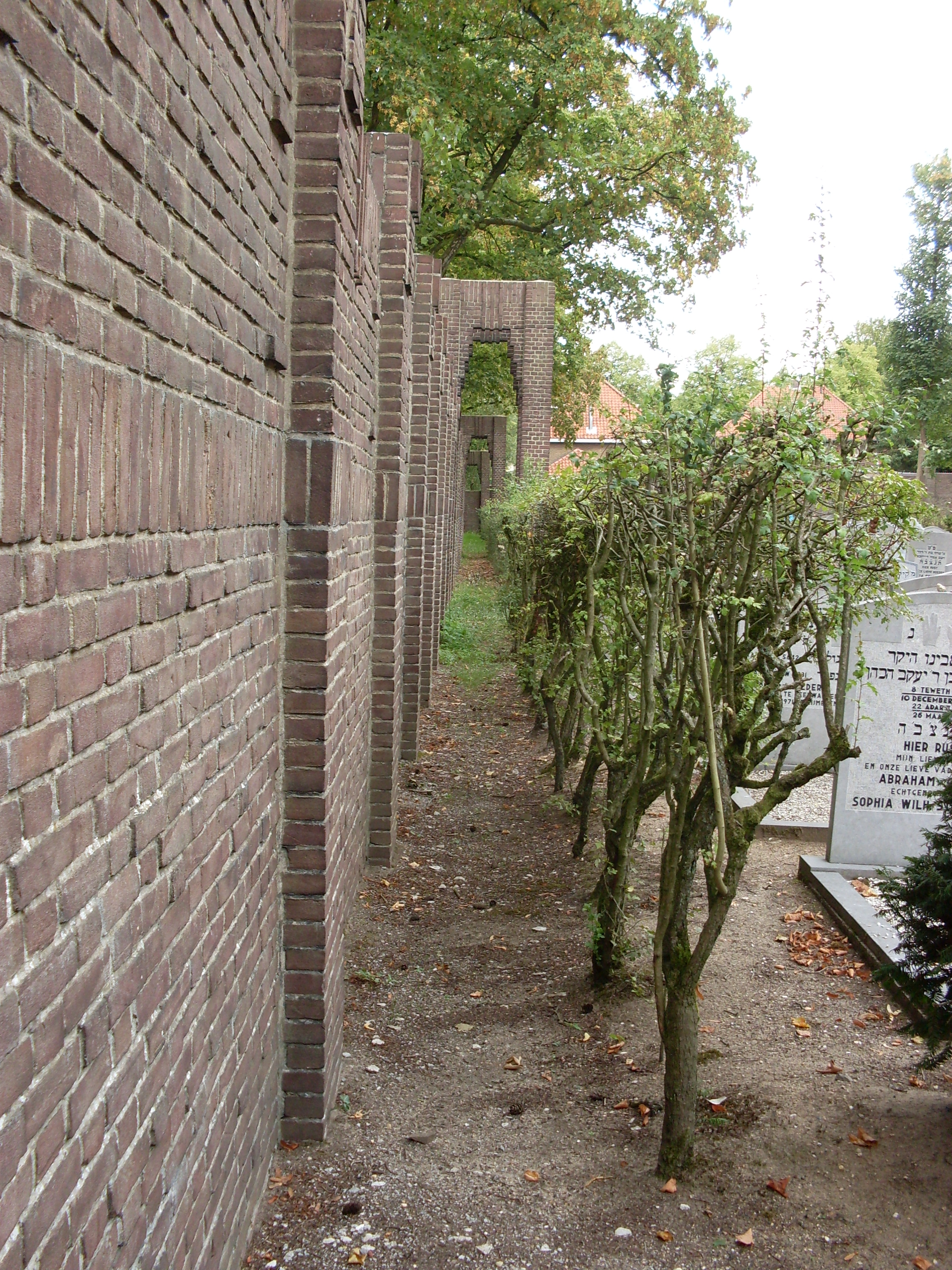 Jewish cemetery Nijmegen